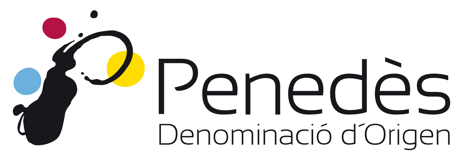 This is the current logo from the Denomination of Origin Penedès in Catalonia, Spain.